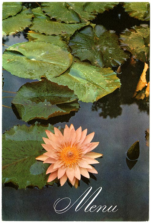 Repository: California Historical Society Digital object ID: CHS2014.1468 [a] Call number: MENU COL Collection: California menu collection Date: circa 1955 Preferred citation: Menu, Schwab's Pharmacy, Los Angeles [cover], California menu collection, courtesy, California Historical Society, CHS2014.1468 [a].jpg. Online finding aid